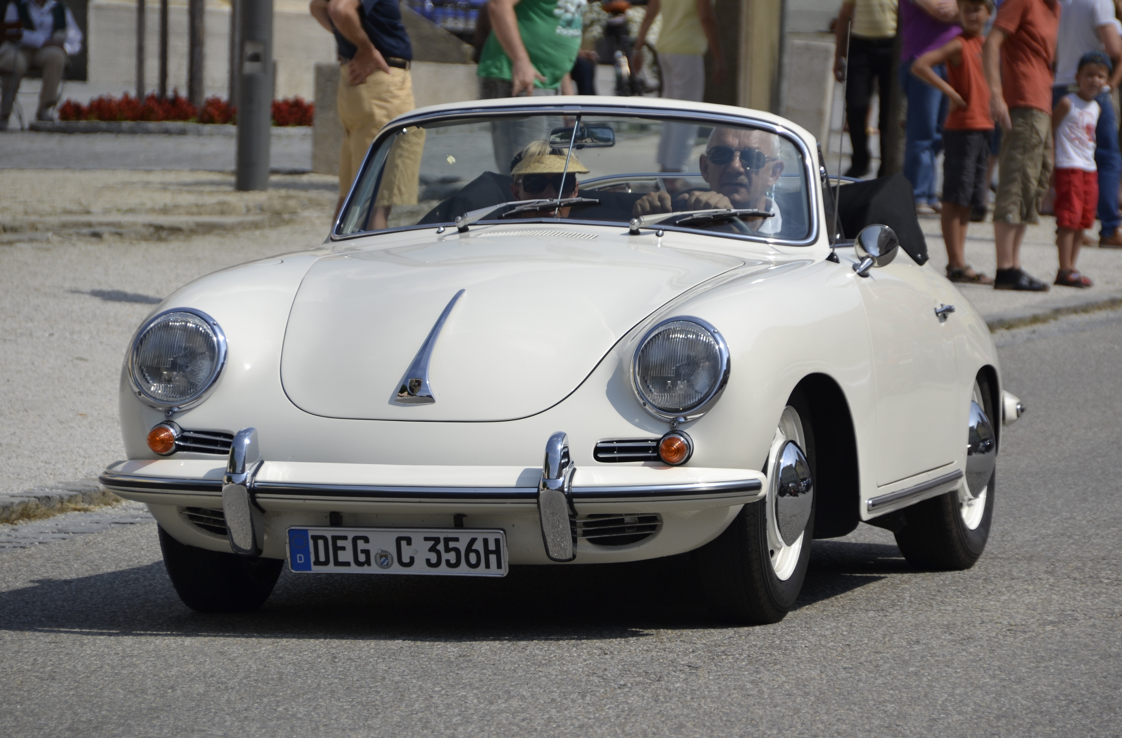 A Porsche 356 (C-Model) at the vintage car event Oldtimerumzug Aidenbach in Bavaria (Germany) in August 2013.